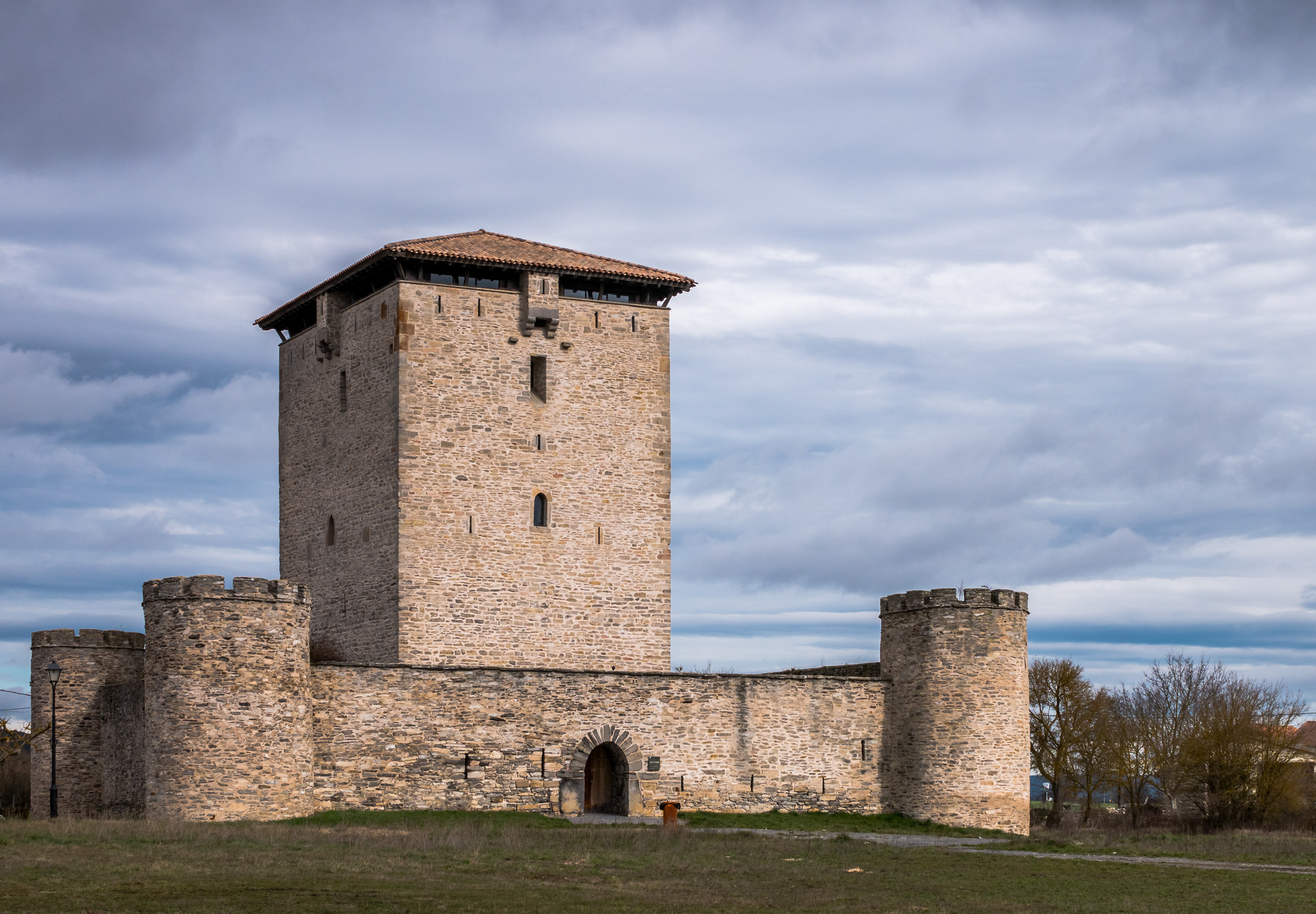 The Mendoza Tower. Álava, Basque Country, Spain